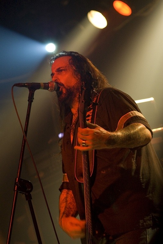 Winterfest 2009, Deicide, Warszawa, Progresja, 22.01.2009